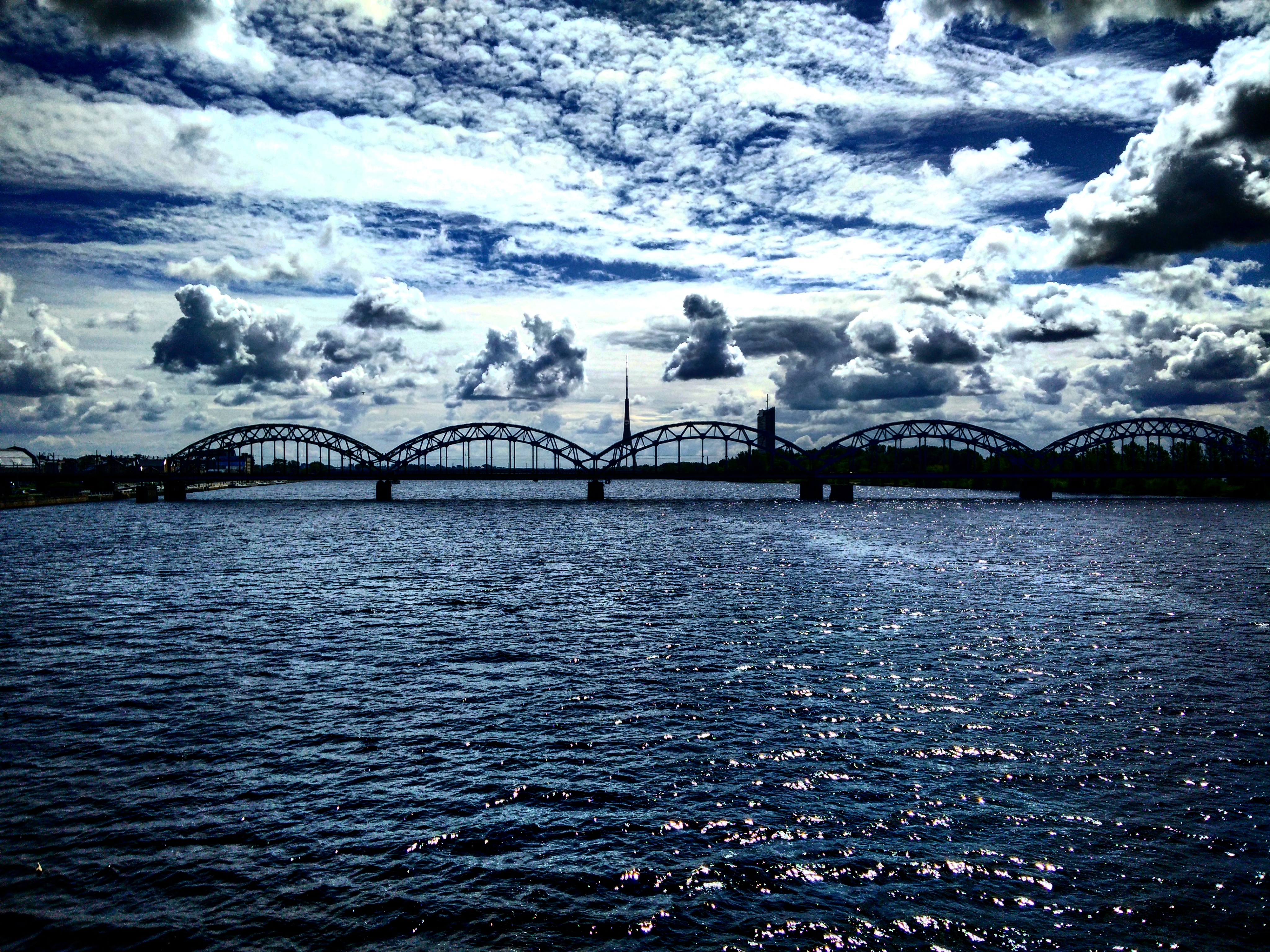 Railway bridge over Daugava in Riga.